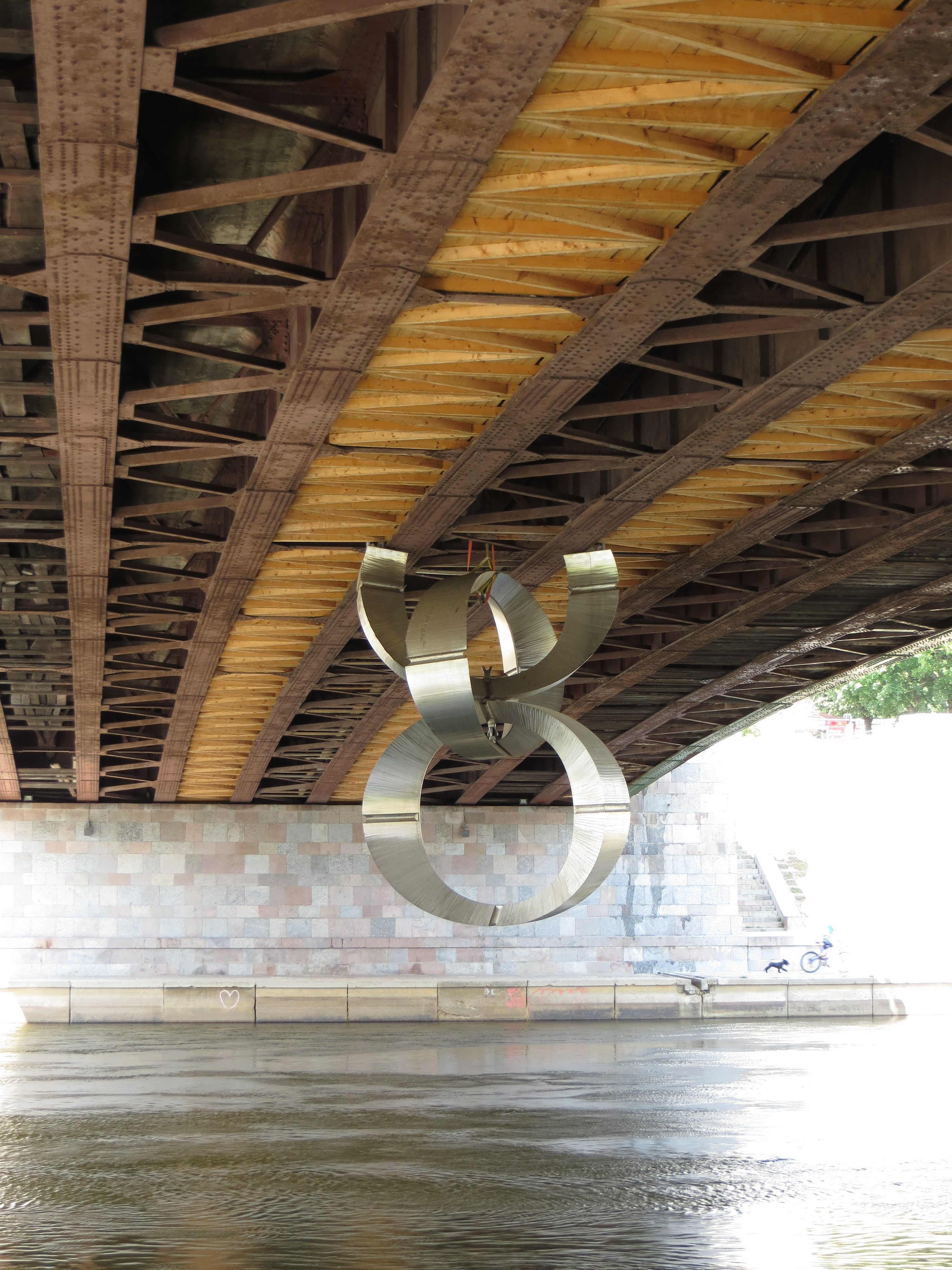 Artwork mounted under Žaliasis tiltas ("the green bridge") across the River Neris in Vilnius, Lithuania. It looks like solid metal, but given its proximity to boat traffic on the river and the thin wires holding it I guess it is mostly hollow and made from a fairly light material.